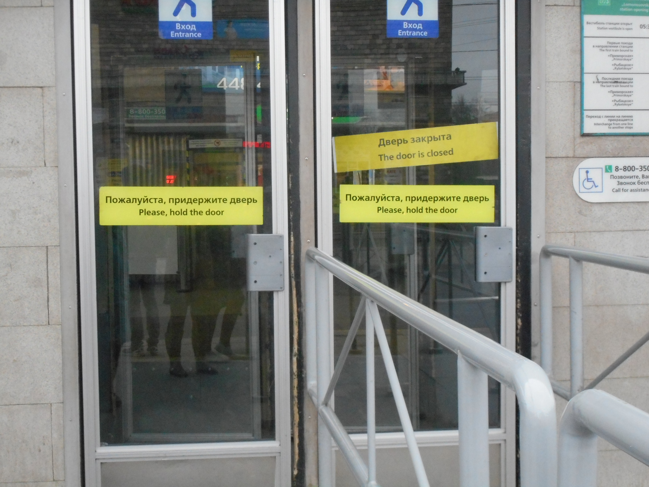 Saint Petersburg Metro 2017-04-03